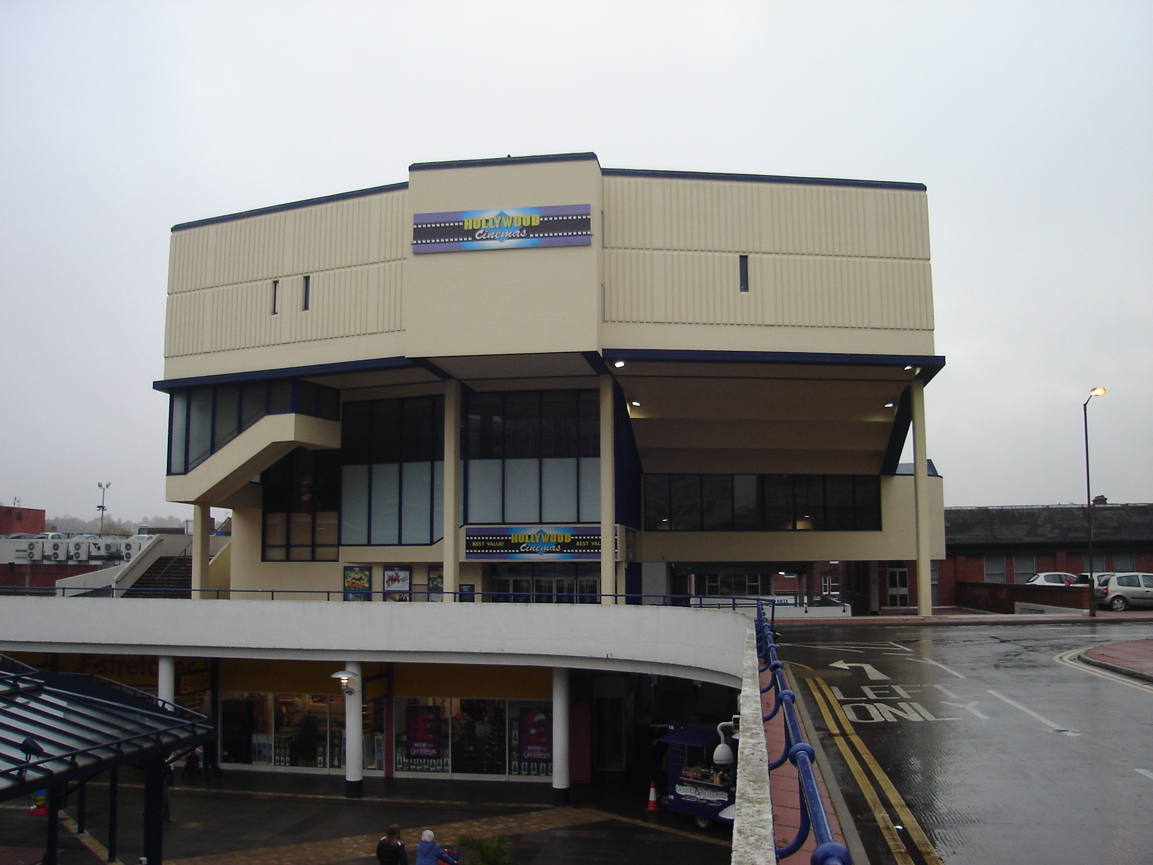 Picture of the former Odeon cinema, Anglia Square, Norwich